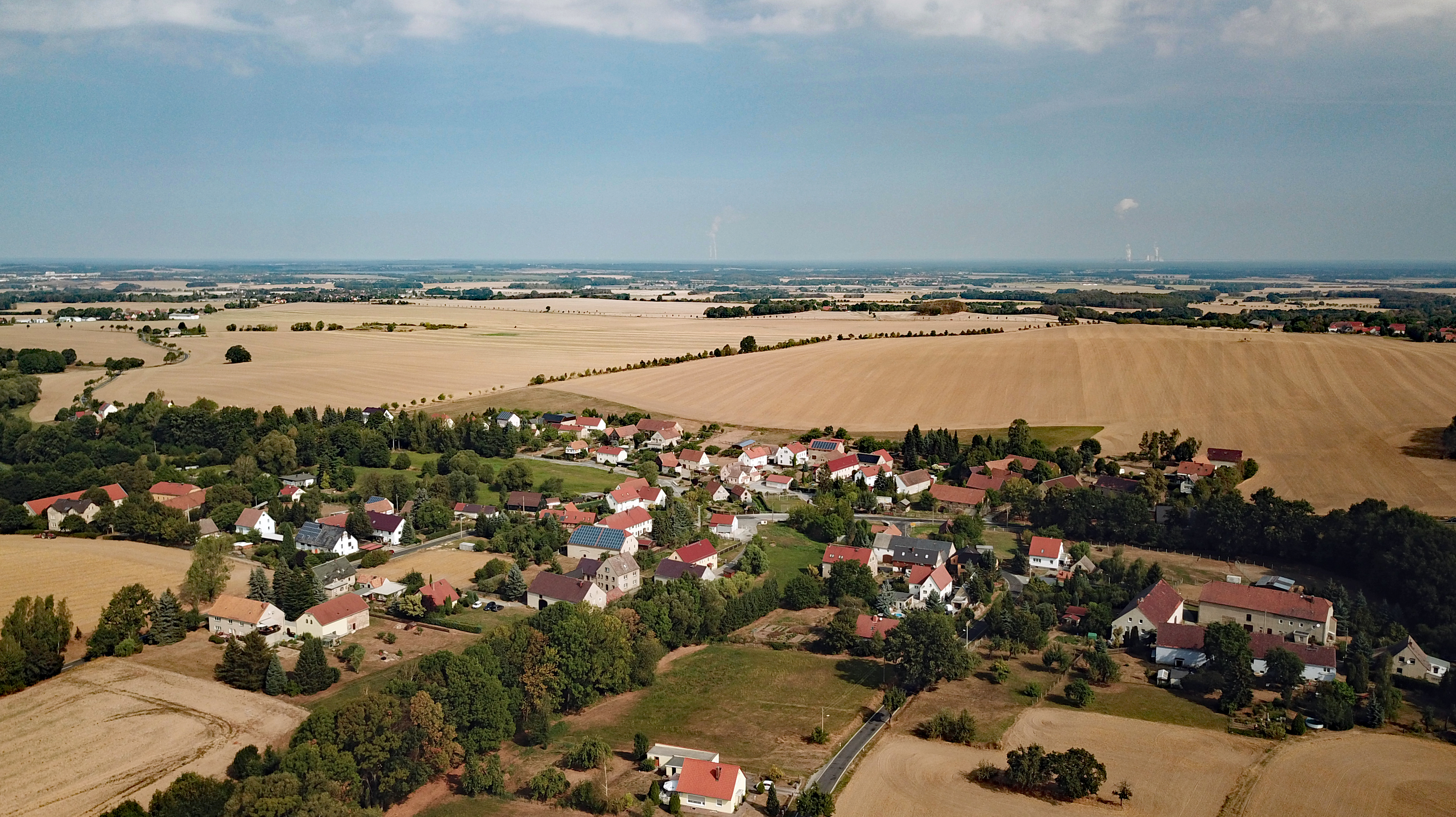 Meschwitz (Hochkirch, Saxony, Germany) Hornjoserbsce: Powětrowy wobraz Mješic.